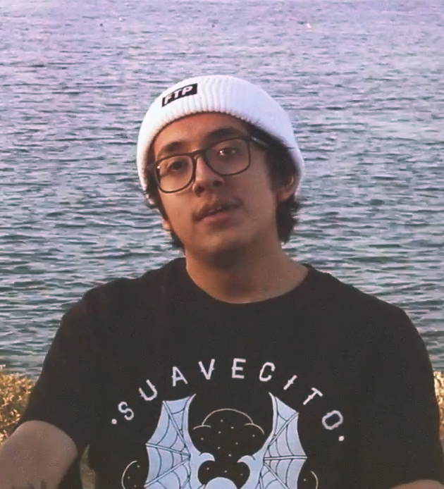 Cuco in an interview with Praxis Collective after his performance at Tropicália Music & Taco Fest. The festival took place at Harry Bridges Memorial Park besides the Los Angeles River.